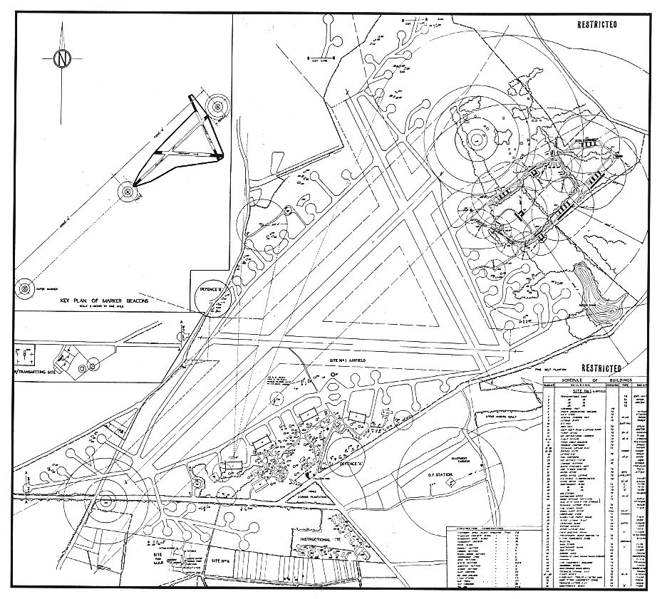 Site plan of RAF Aldermaston, 1945